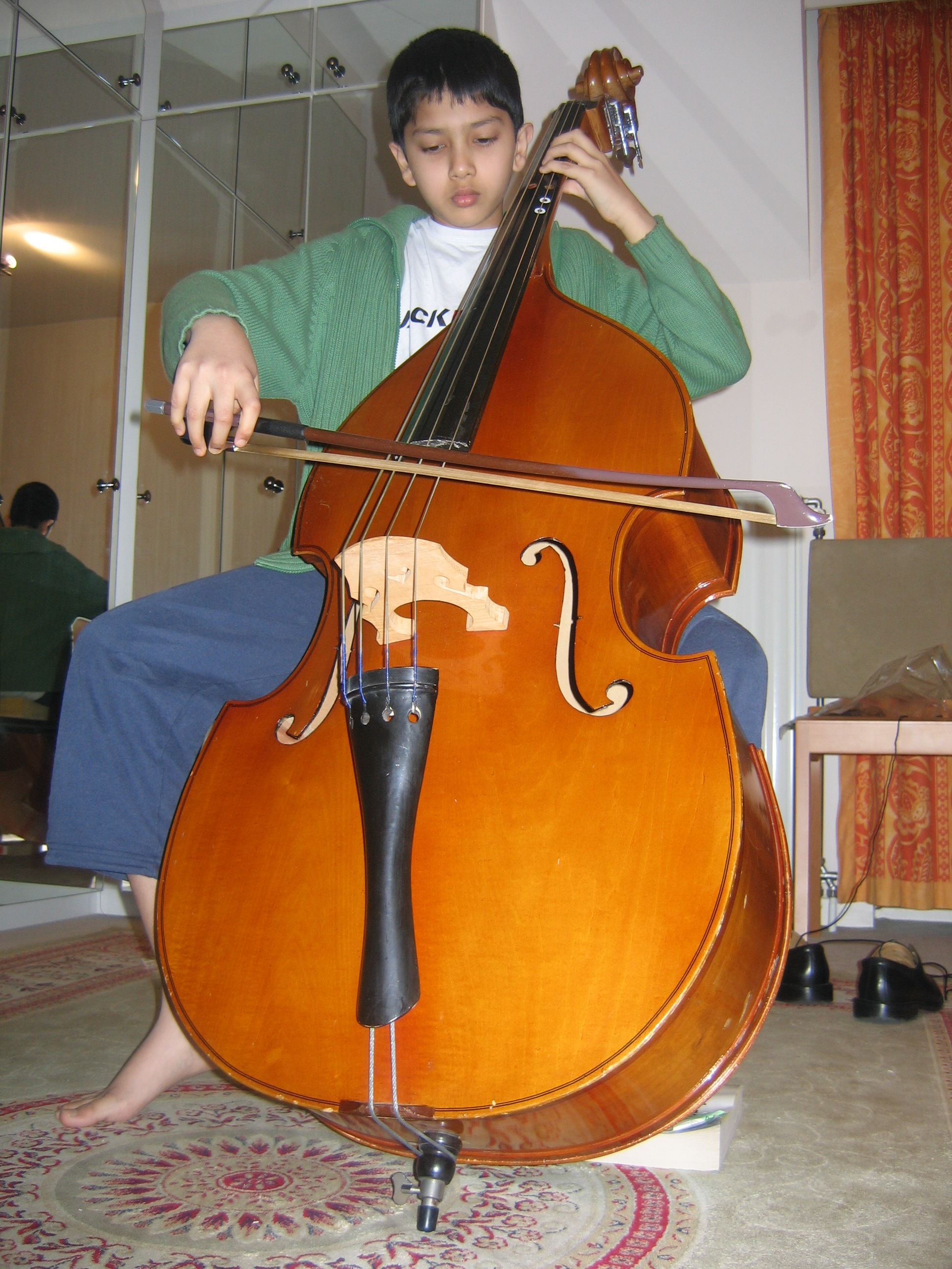 Musical instrument Base being being played by a Bangladeshi boy.